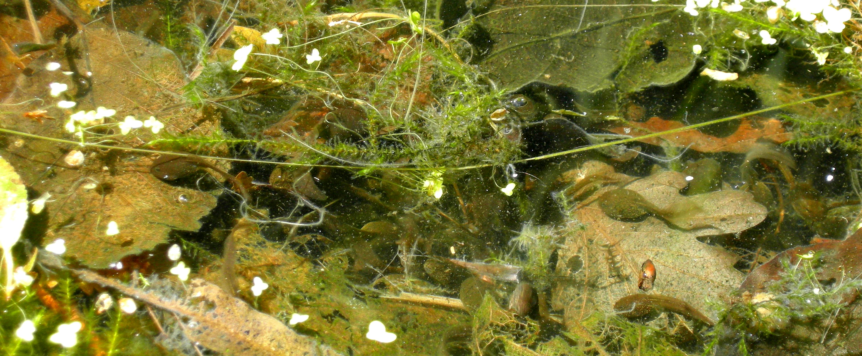 Tadpoles in pond at Bracken Hall Countryside Centre and Museum, Baildon, West Yorkshire, England.